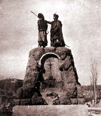 An old photo of Iskra and Kochubey monument in old Kyiv. The monument was dismantled by Ukrainian authorities in 1918